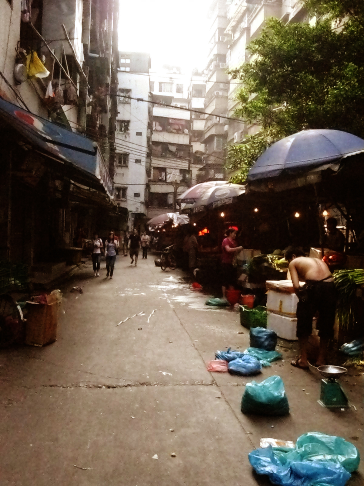 food market, Shipai Village, Guangzhou, China